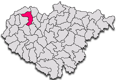 Map Salaj County Romania